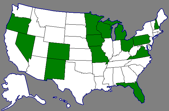 The current swing states in the United States.